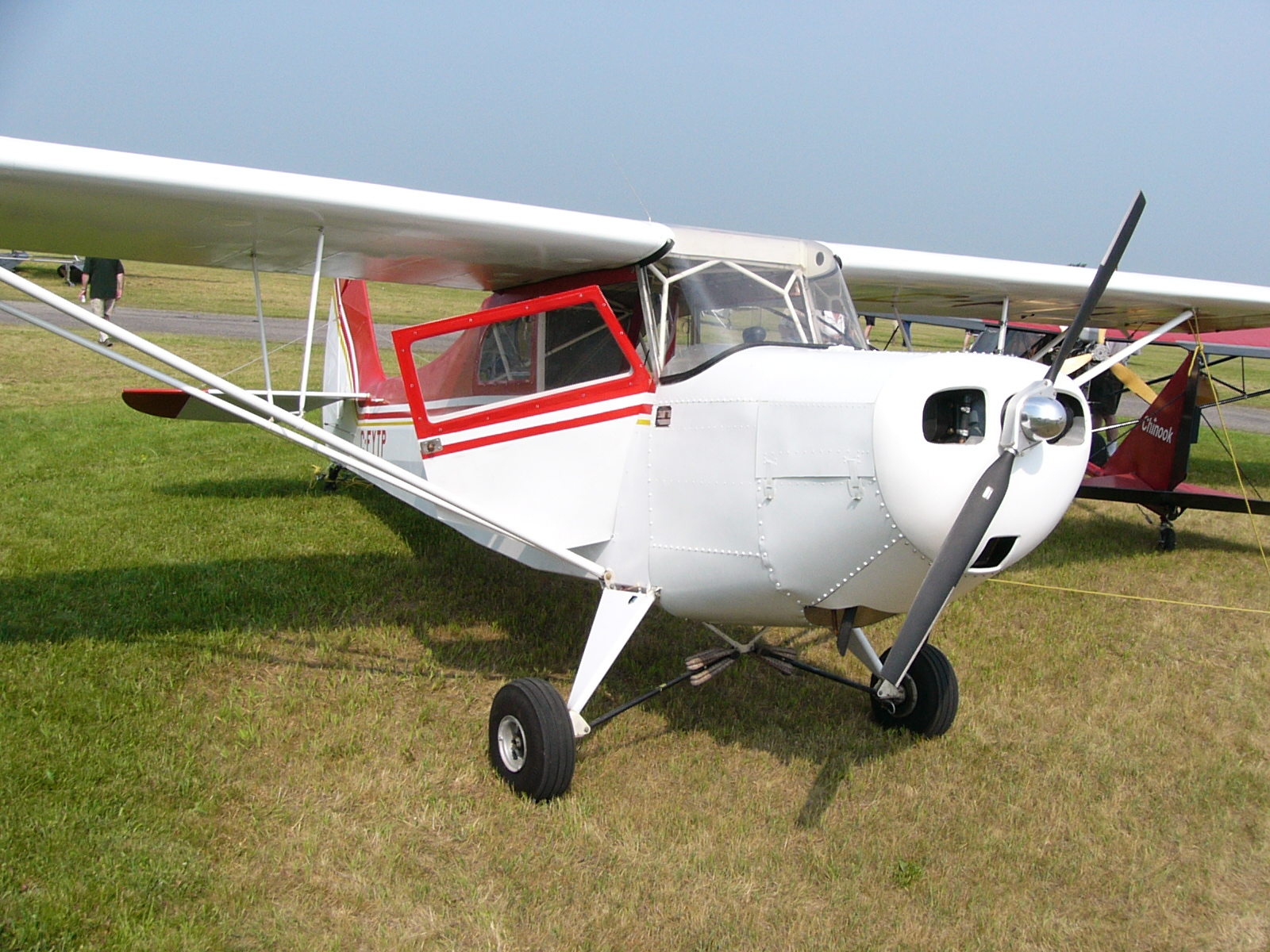 A Christavia Mark 1 at the Brockville Fly-in, Brockville, Ontario, Canada